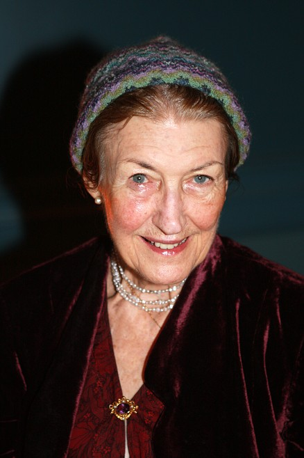 Writer Shirley Hazzard at the Mercantile Library Center for Fiction's Annual Benefit and Awards Dinner, held at the New York Tennis and Racquet Club at 350 Park Avenue, in New York. October 29, 2007.